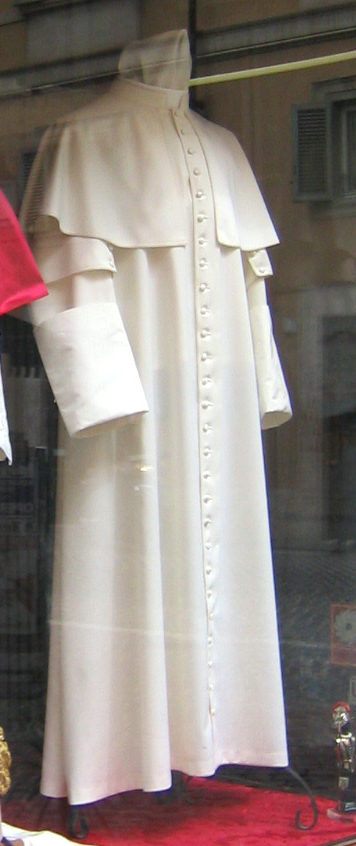 Display window of Gamarelli during the 2005 sede vacante. Papal white simar: A simar is similar in design to a plain cassock, but has a shoulder cape. The double half-sleeves (which were discontinued for all clerics besides the pope) are clearly visible.